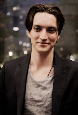 Richard Harmon Photos of the Cruel and Unusual premiere in Vancouver! Photos by Nathalie de los Santos.